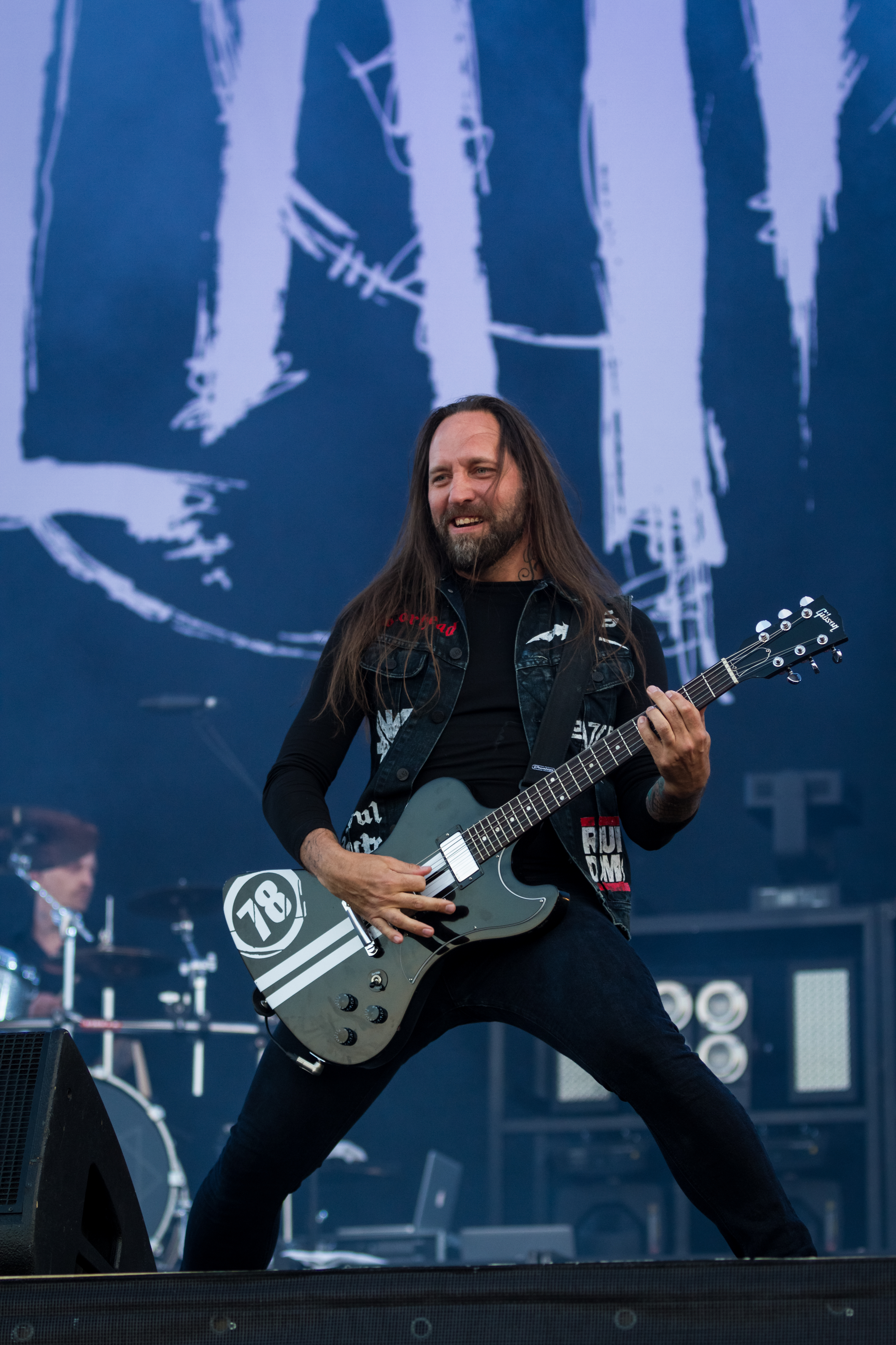 In Flames - Rock am Ring 2015